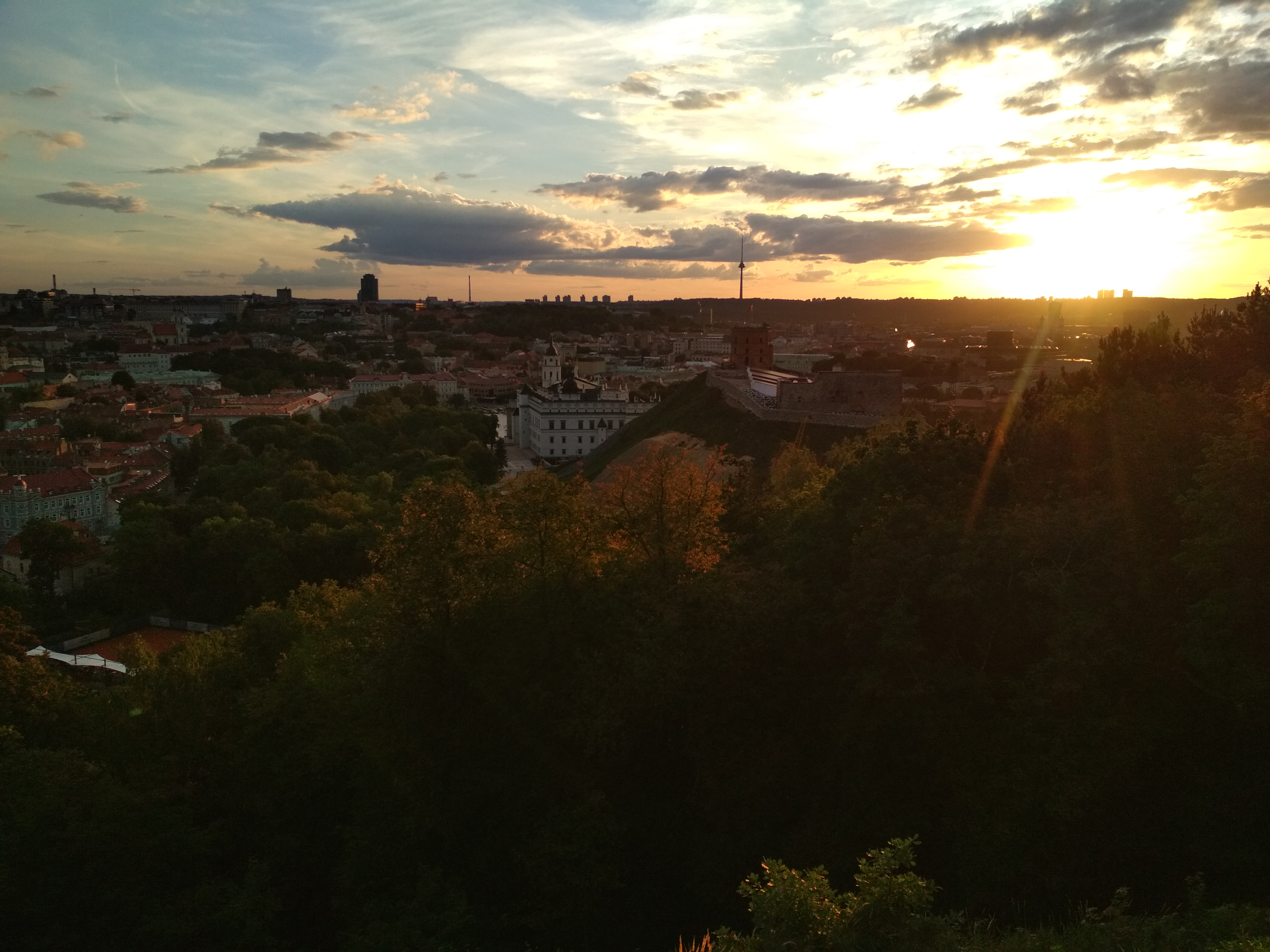 View of Vilnius from the Hill of Three Crosses